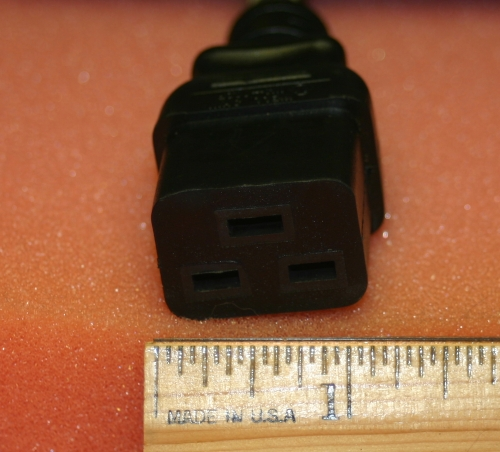 IEC320-C19 line socket.